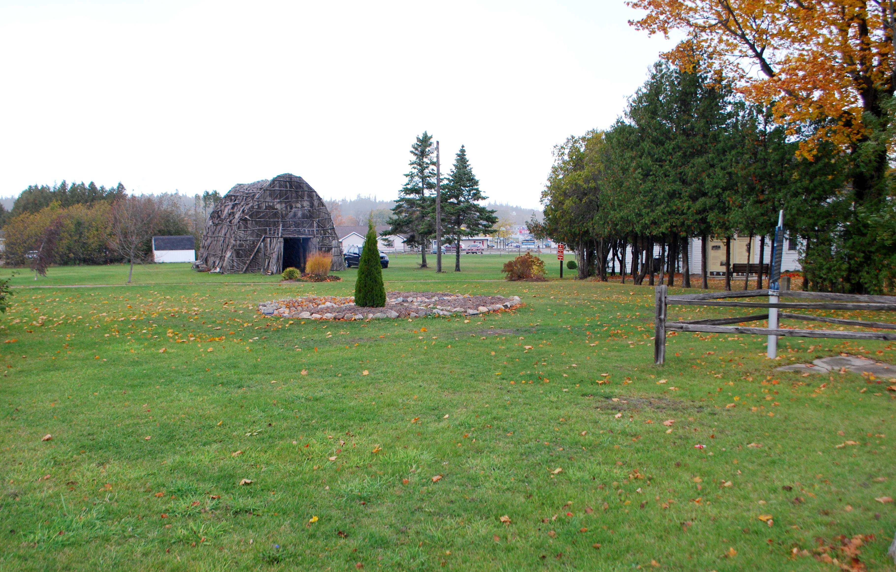 Marquette Street Archaeological District behind St Ignace Mission, St Ignace MI